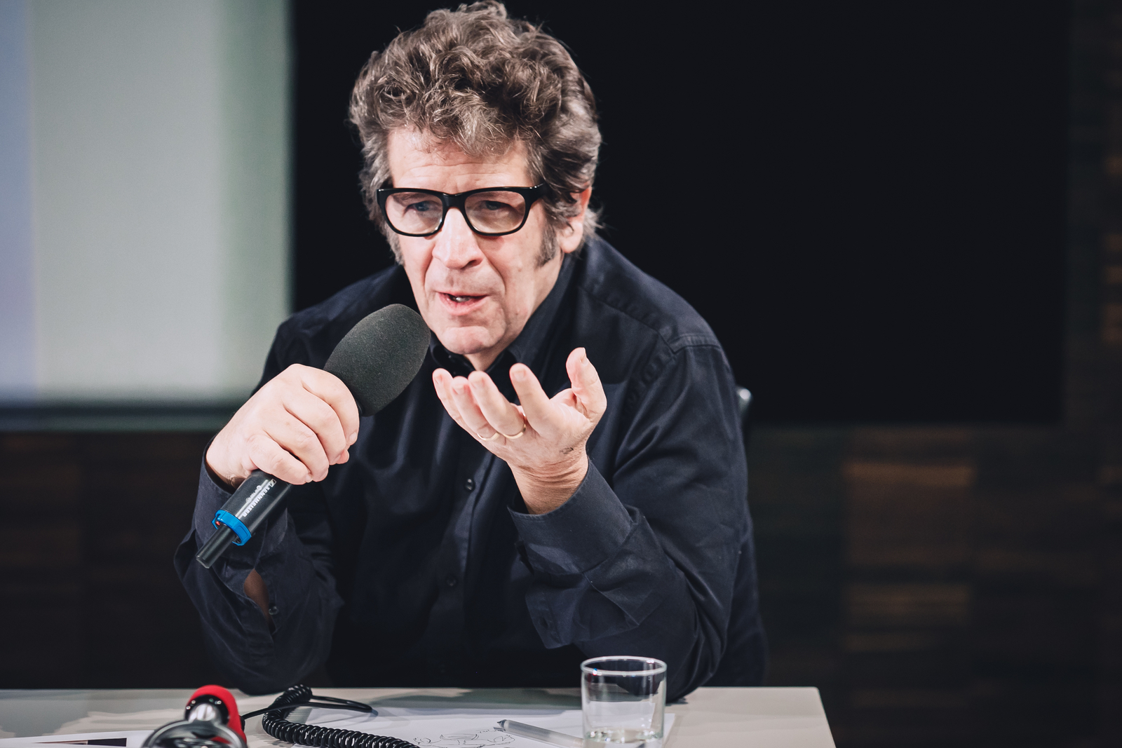 Robert Longo at Garage Museum of Contemporary Art, 2016